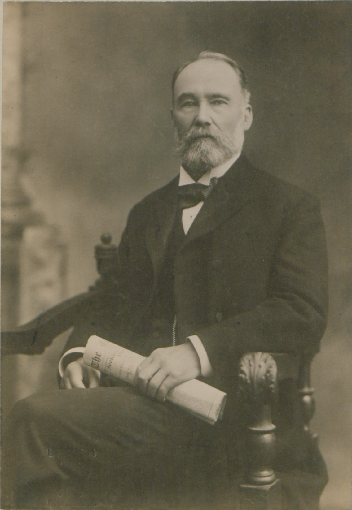 Honourable G.W. Ross, Prime Minister for Ontario.